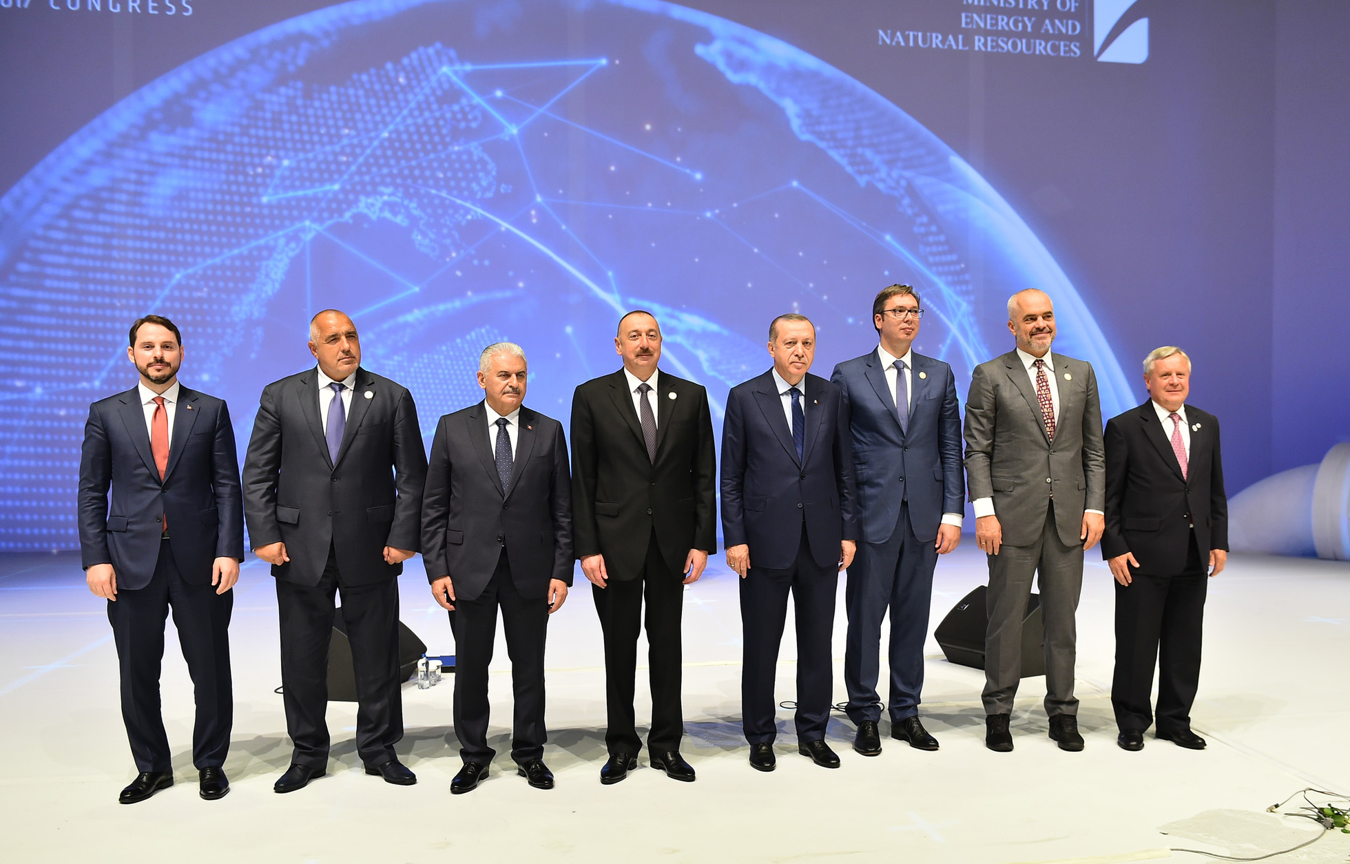 Official guests of 22nd World Petroleum Congress in Istanbul, Turkey.